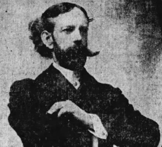 Portrait of Adolf Dahm-Petersen from the Birmingham News, August 27, 1904, Page 13